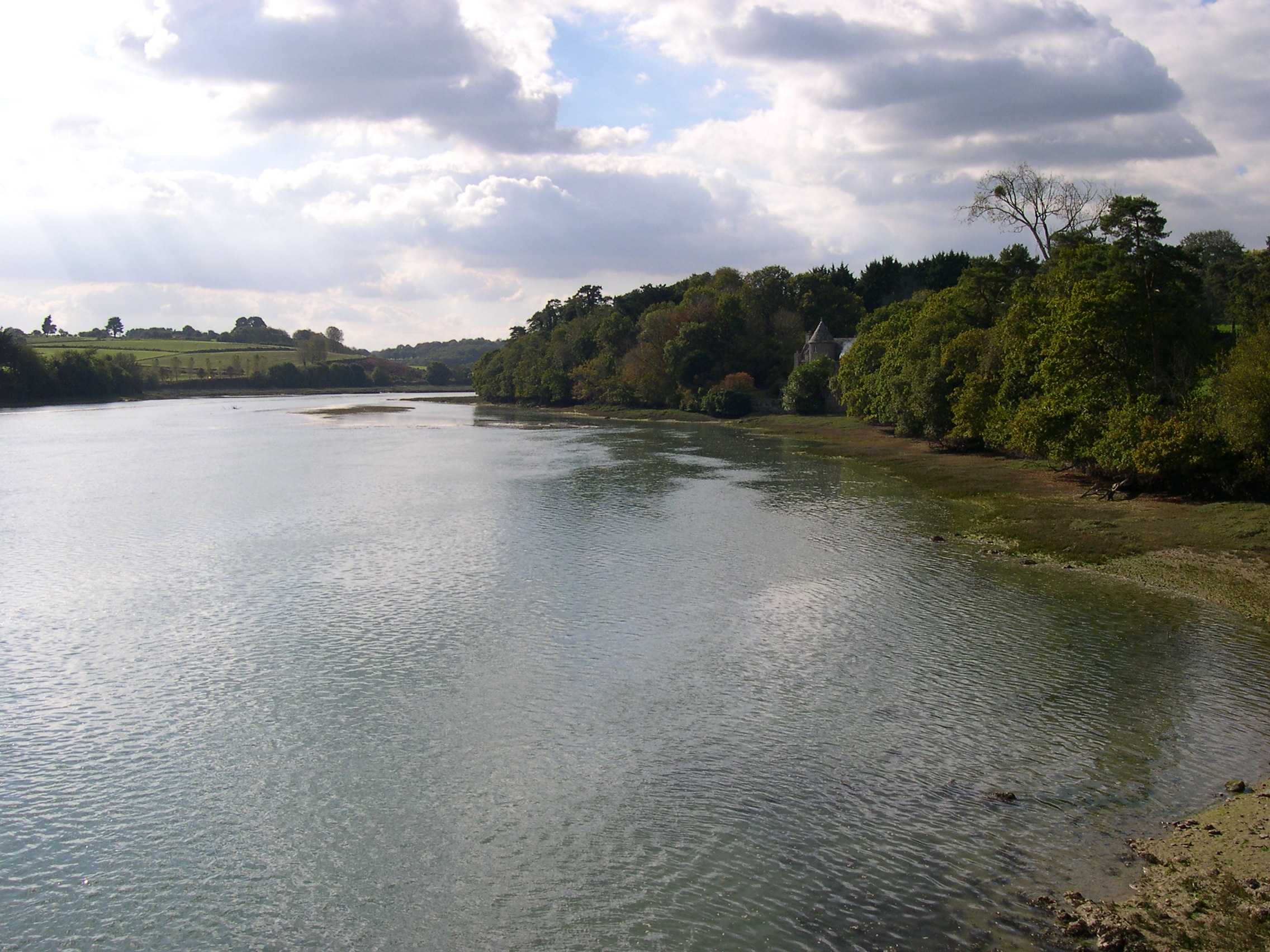 Estuary of the river